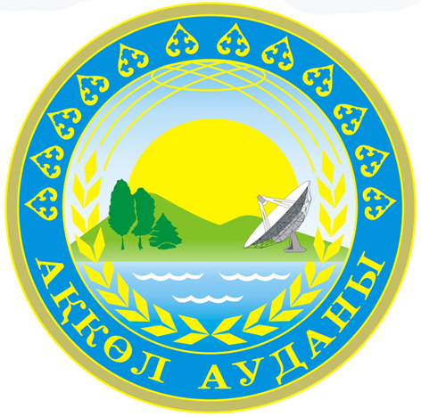 Coat of Arms of Akkol Raion, Kazakhstan